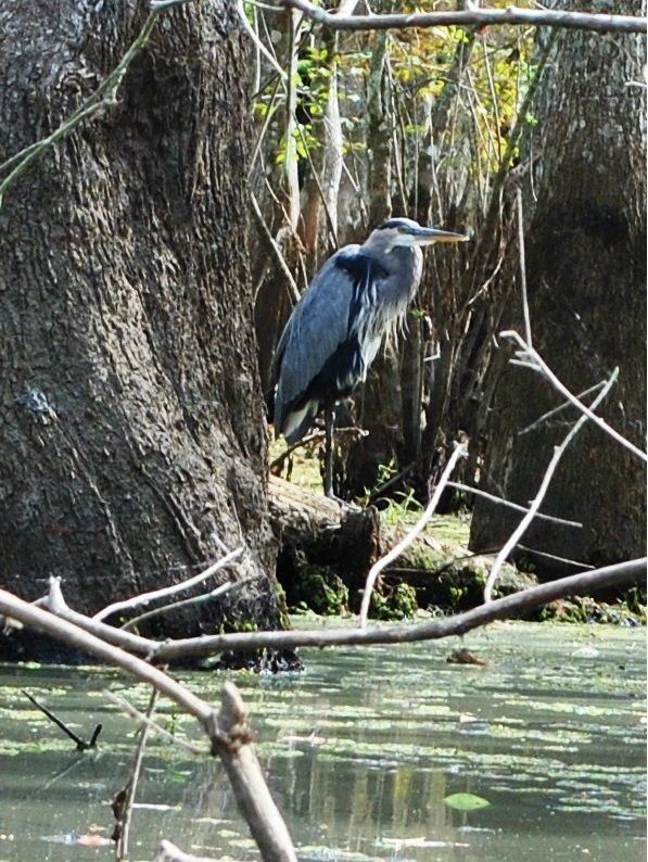 Honey Island Swamp